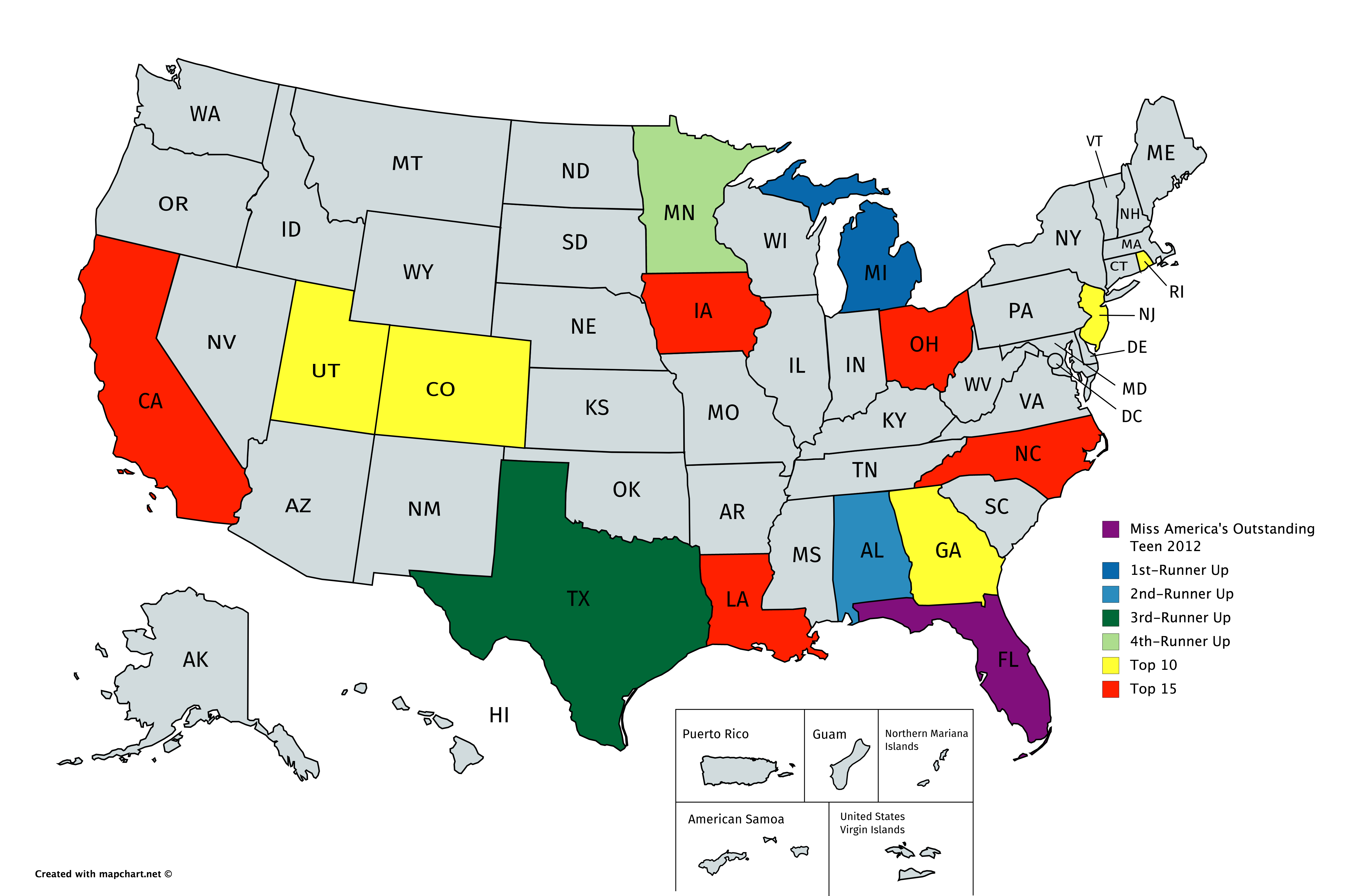 Placements of Miss America's Outstanding Teen 2012 on a map